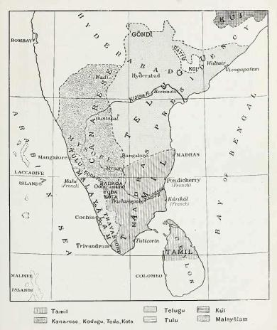 Map showing distribution of the Dravidian Languages